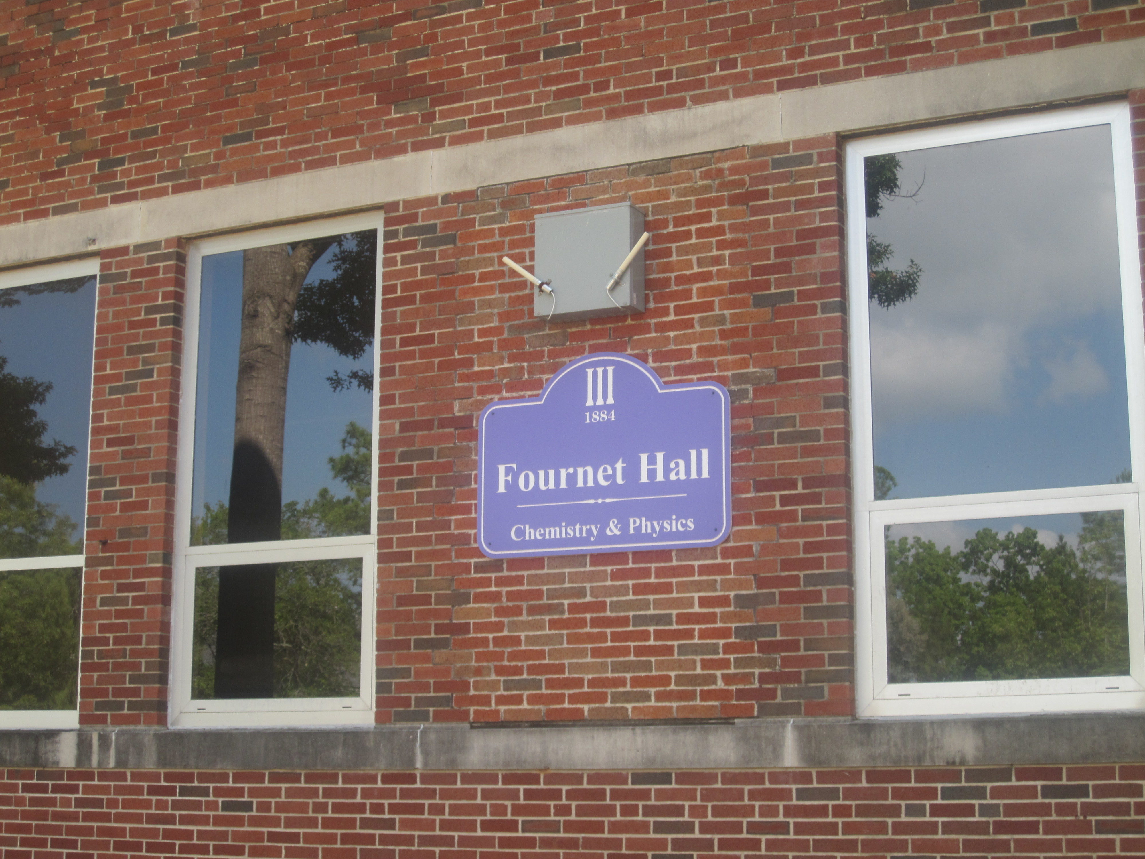 Fournet Hall at NSU in Natchitoches, LA IMG_1988.JPG